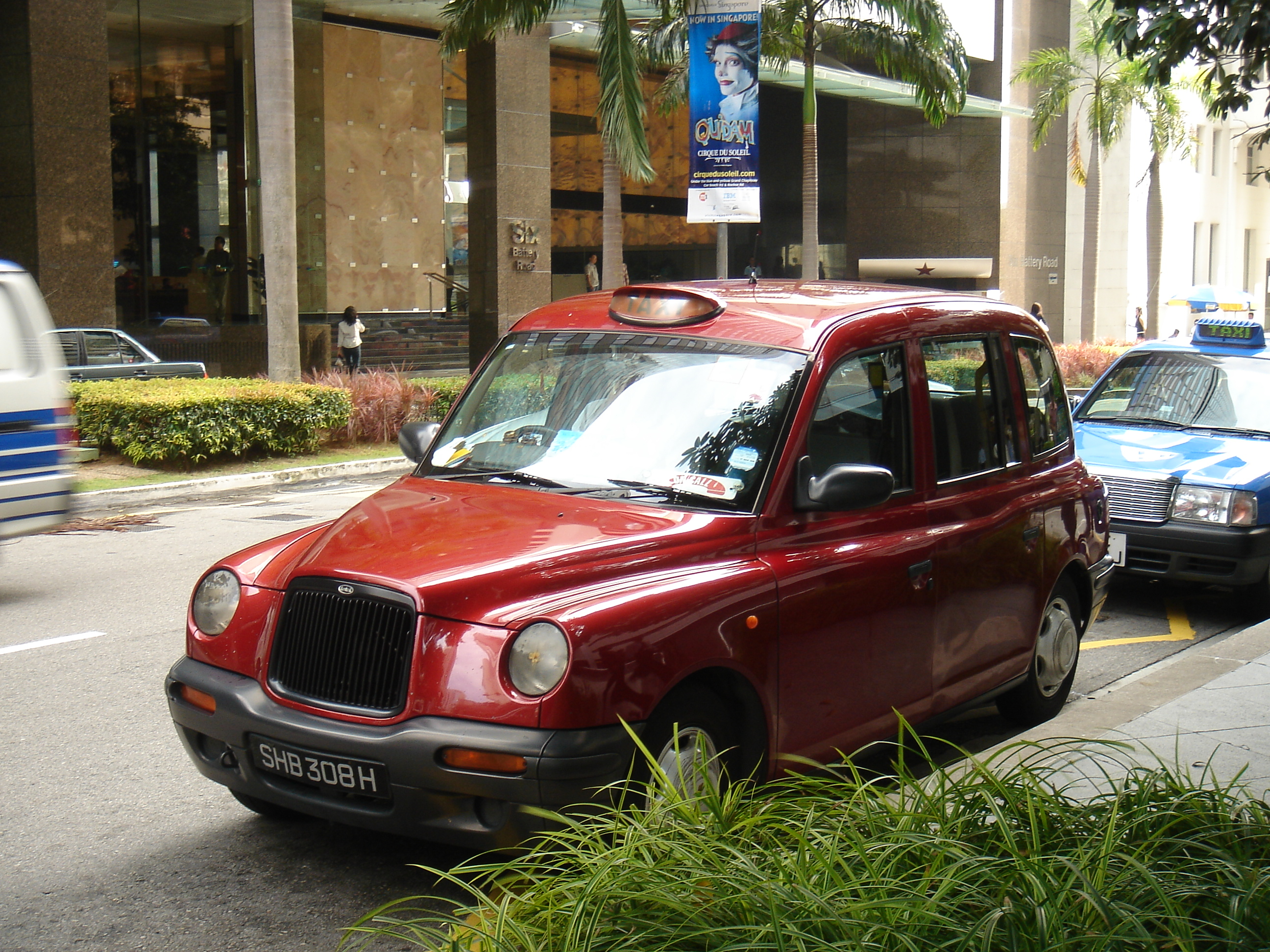 A London taxicab at Raffles Place, Singapore. Because they (and Mercedes-Benz taxicabs) are rare in Singapore, they charge a premium booking rate.